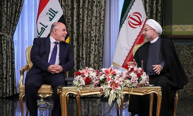 Iranian President meets Iraqi Prime Minister, Haider al-Abadi in Saadabad Palace